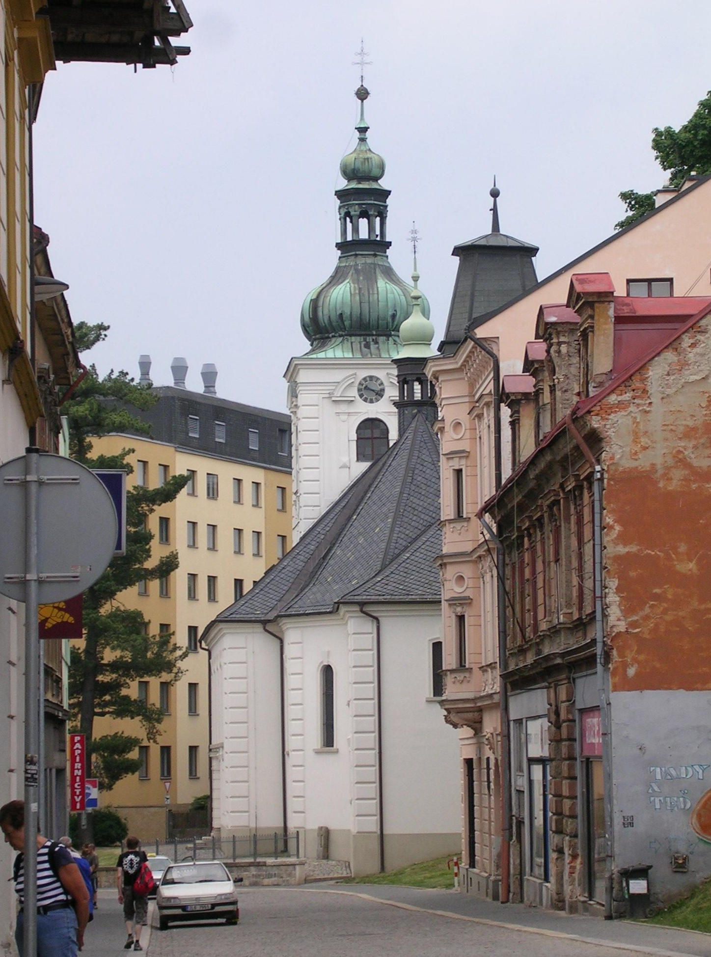 Jablonec nad Nisou. The Czech Republic.